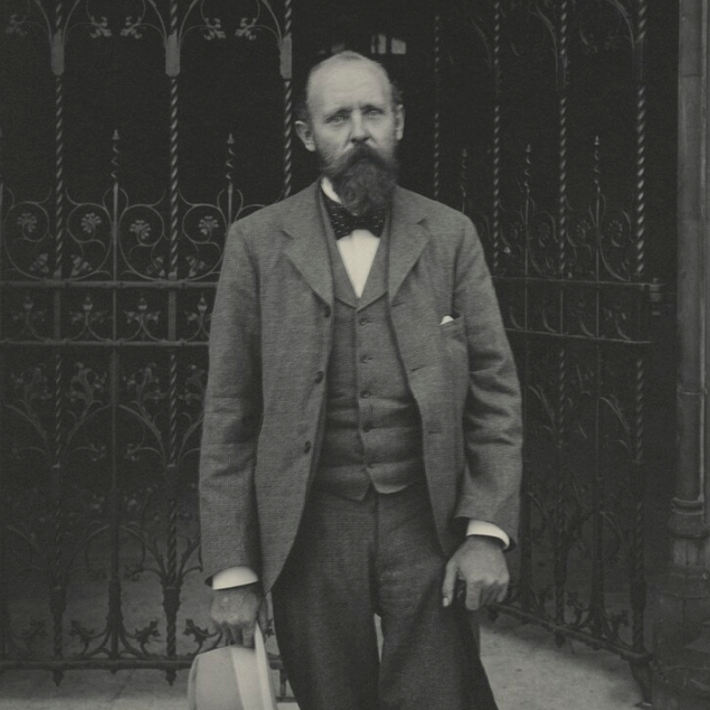 Charles Neufeld, The Prisoner of Omdurman